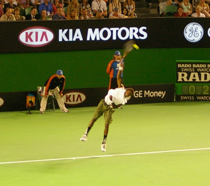 Gaël Monfils serving during his match against Marcos Baghdatis during the 2007 Australian Open in Melbourne.